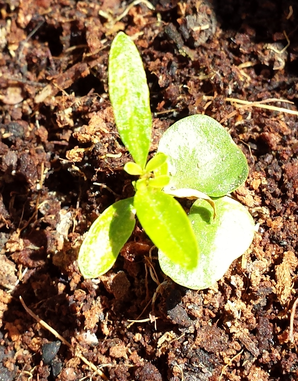 Olea europaea seedling. It can see the two, rounded, cotyledons. Barcelona, Catalonia